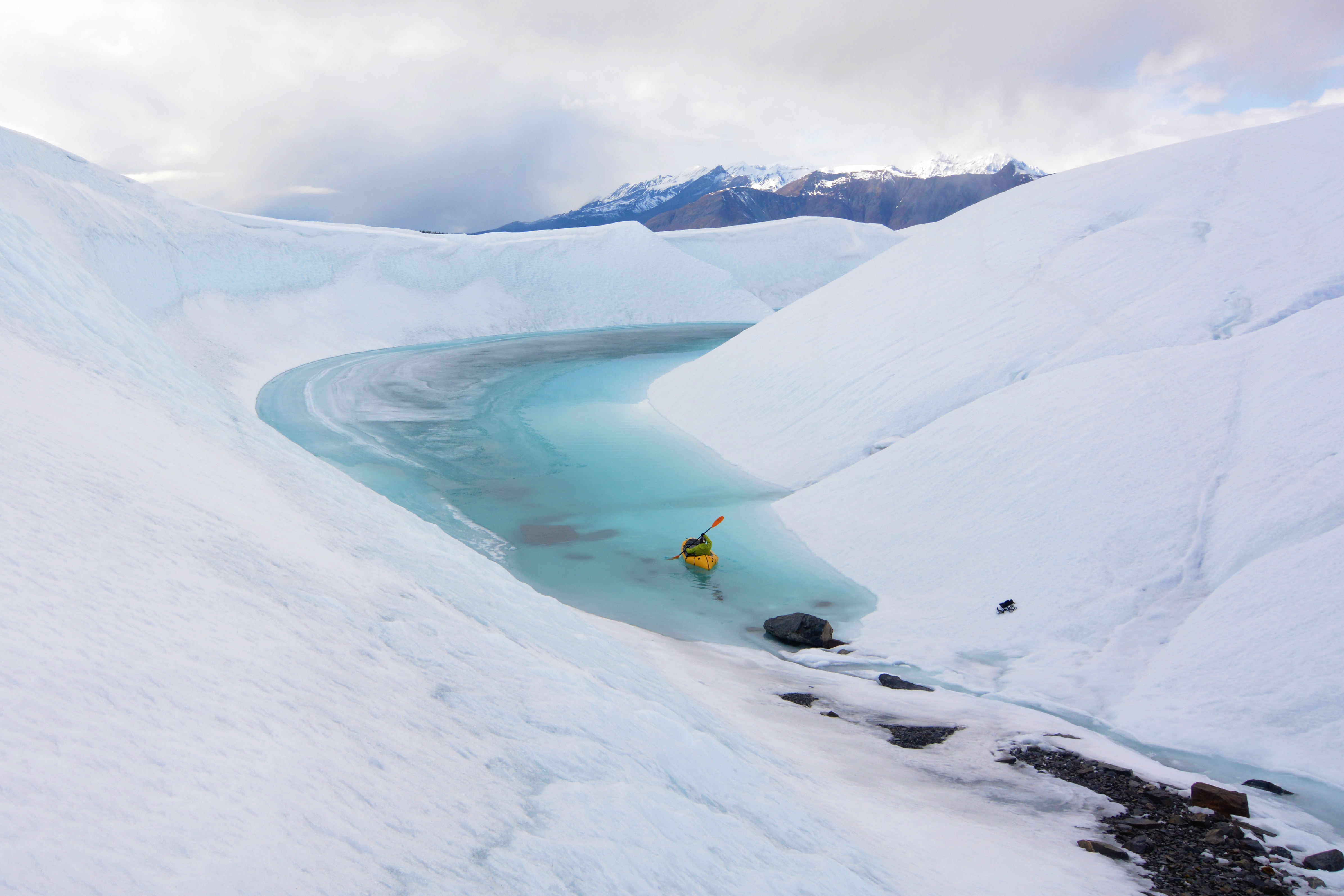 Anchorage paddler Brett Frazer sets off into a flooded ice canyon on Matanuska Glacier in an Alpacka packraft. Glacial water features--especially moulins--can present serious hazards to paddlers; floating glacial surface water should only be done after extensive scouting and with appropriate caution.